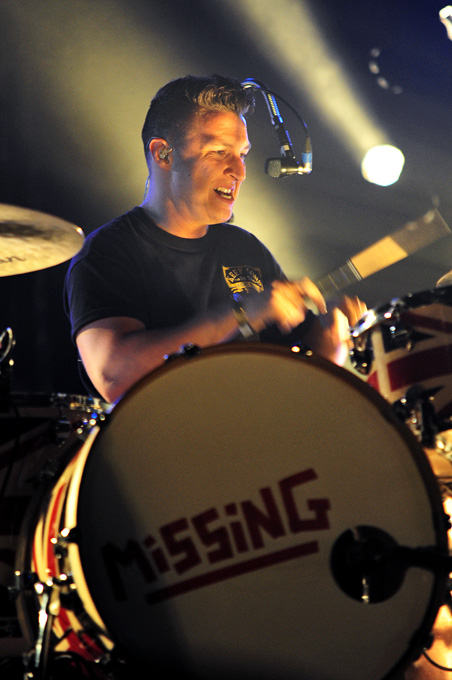 Southbound Festival 2012